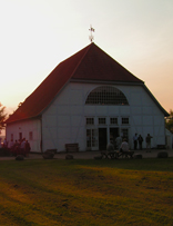 Chaluphuset in Fredensborg Slotshave is a covered port, that originally was the home of the Royal ships, but today used for cultural events.